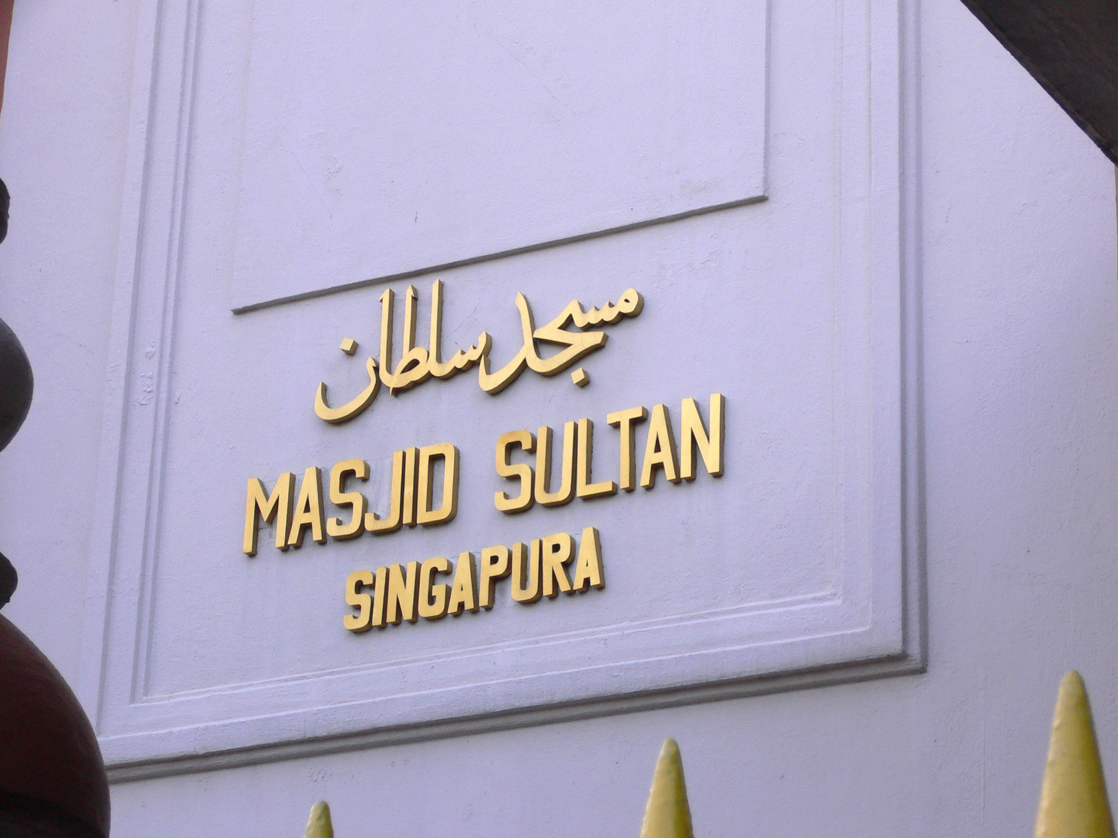 The sign outside the Masjid Sultan, Singapore.